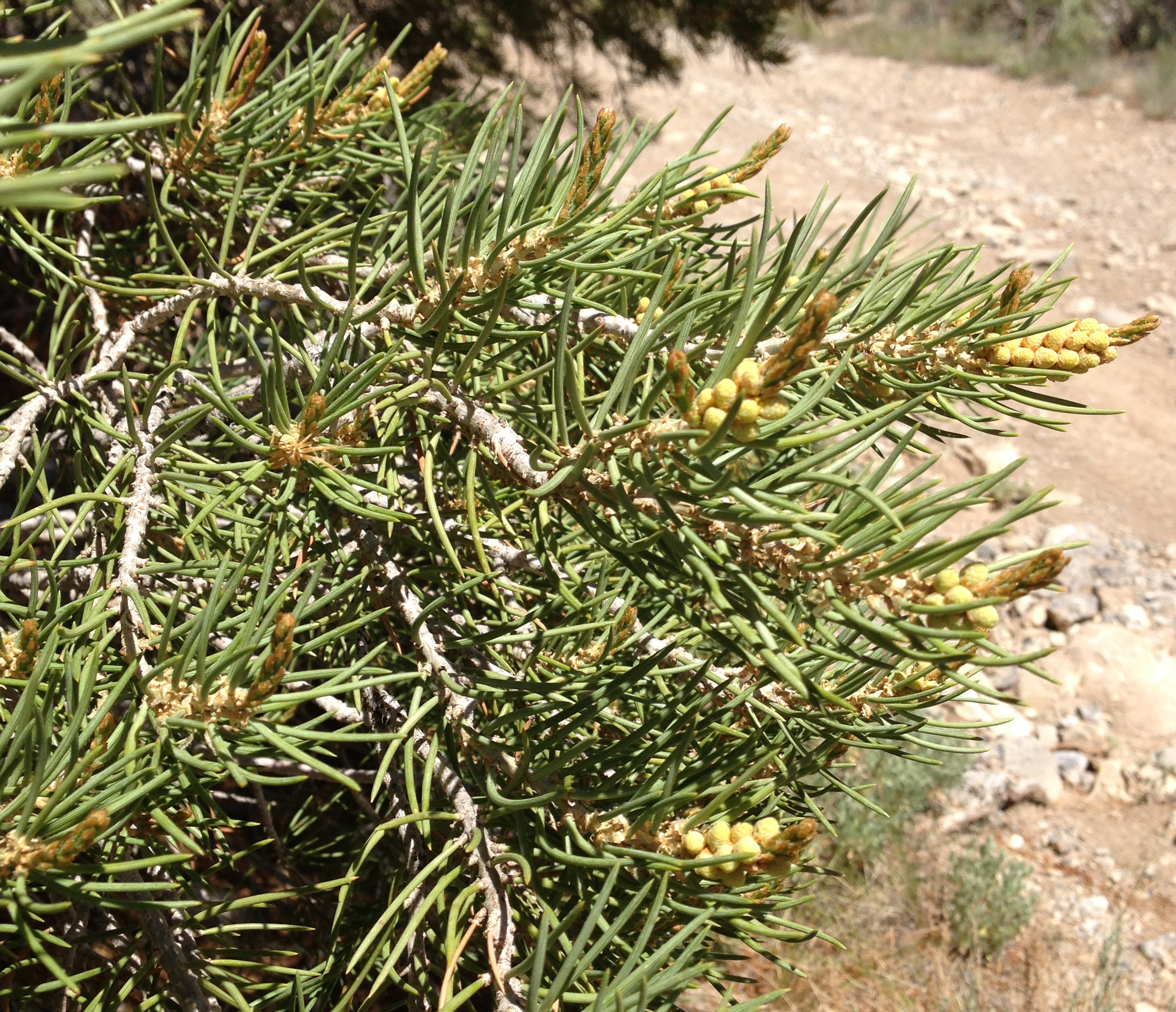 Pinus monophylla (Single-leaf Pinyon) pollen cones on Spruce Mountain, Nevada